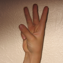 Counting Hand 3 (but note that this is potentially confusingly similar to the sign for the number 6 in ASL - se File:LSQ_6.jpg, while File:LSQ 3.jpg is 3 in ASL.